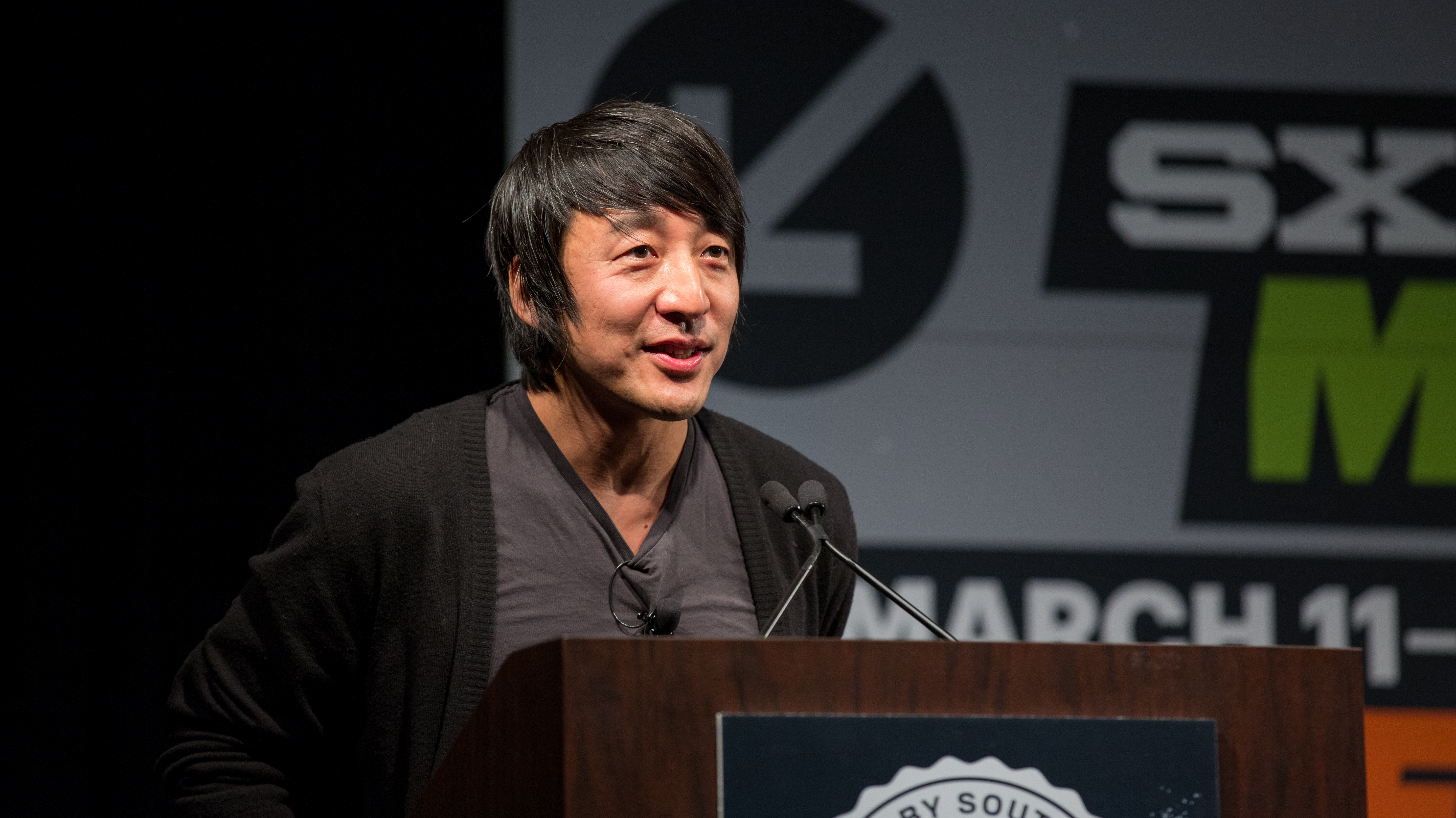 Founder of Giphy, Alex Chung at SXSW in Austin, Texas.